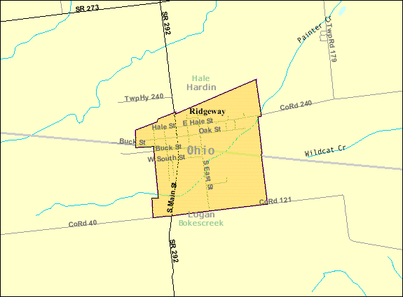 Map of Ridgeway, a village in Hardin and Logan Counties, Ohio, United States, with its boundaries at the time of the 2000 census.